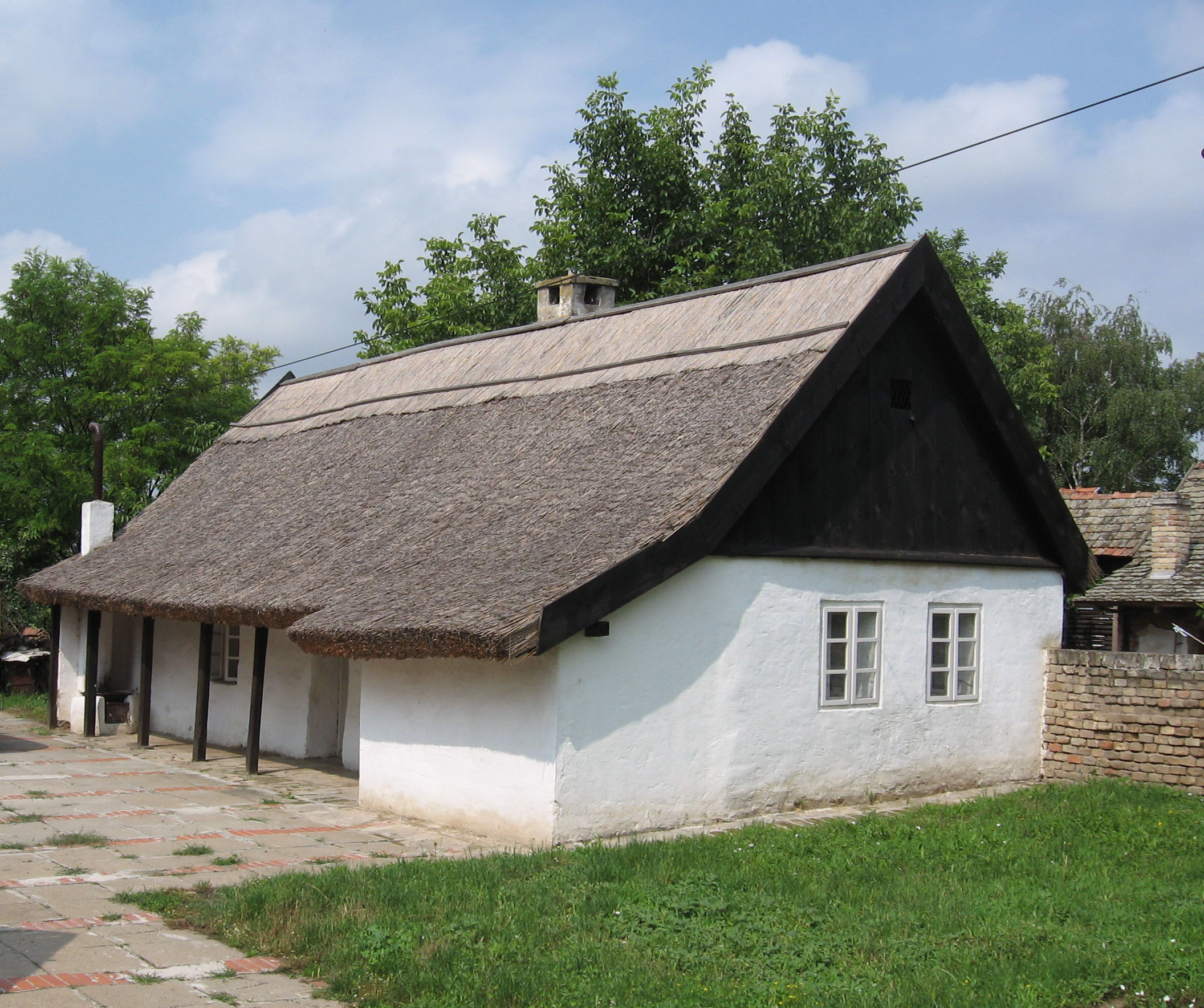 The outer appearance of the ethno house